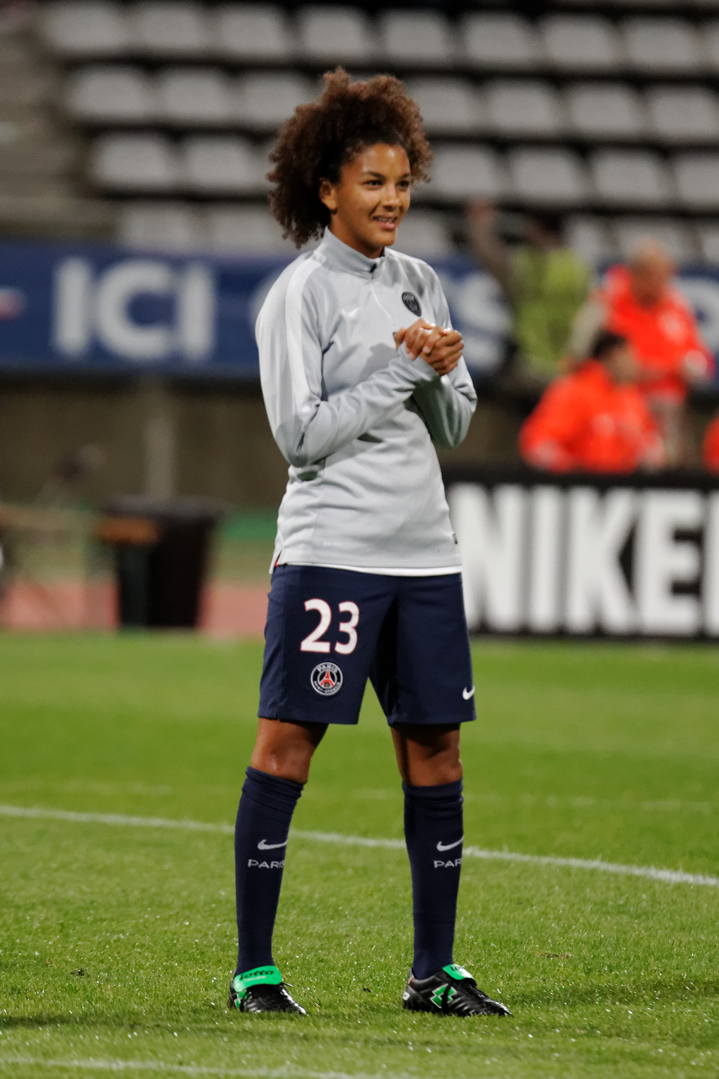 UEFA Women's Champions League, PSG - Twente, 15 October 2014